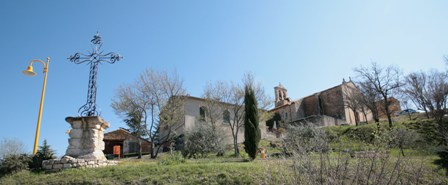 the village of Gargas, France